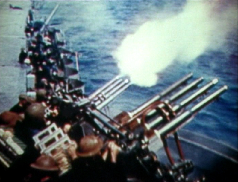 A quad 28 mm (1.1"/75 cal) Mk 1 anti-aircraft gun firing on the U.S. aircraft carrier USS Hornet (CV-8) in May 1942.